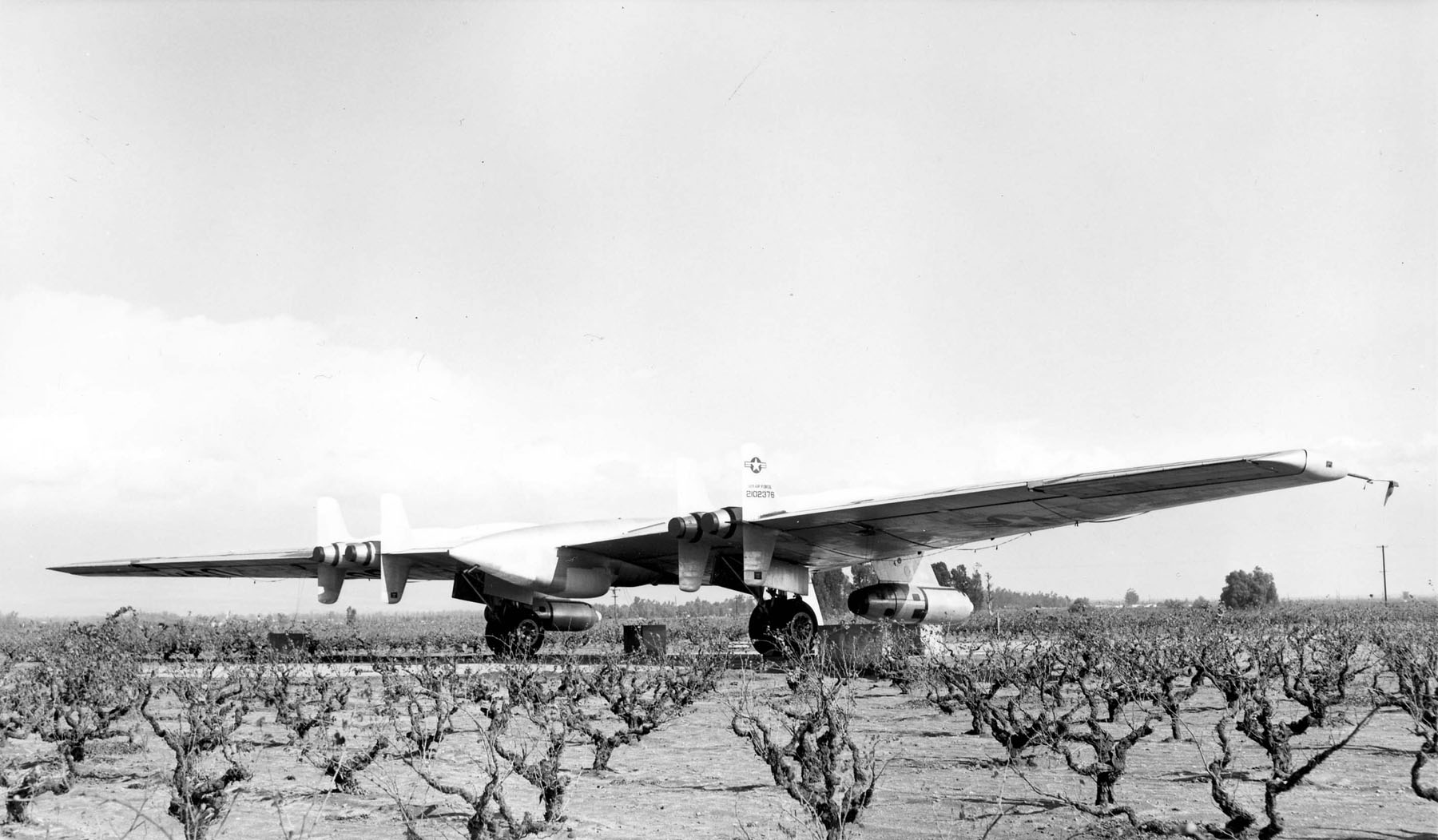 YRB-49A with its eight engines replaced with six (two of which were externally mounted).